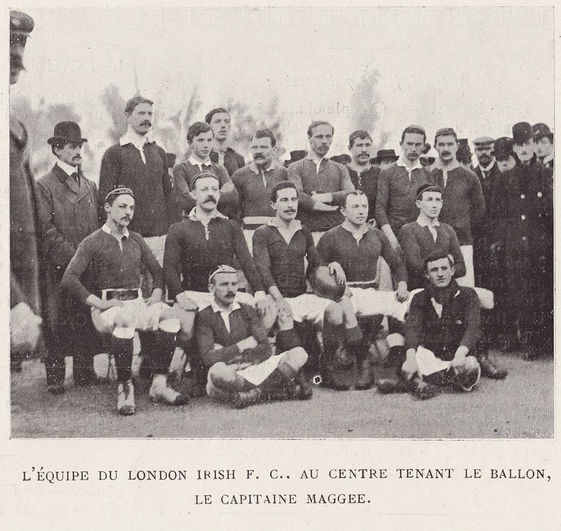 The London Irish rugby union team that played Racing Paris in 1899